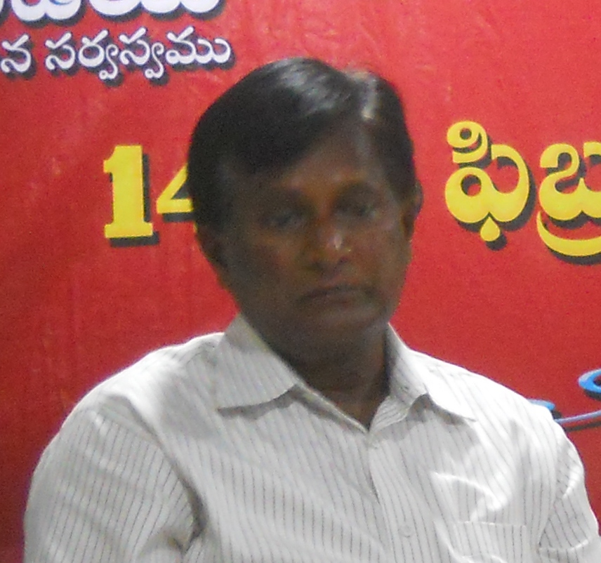 sakam naagaraju president arasam